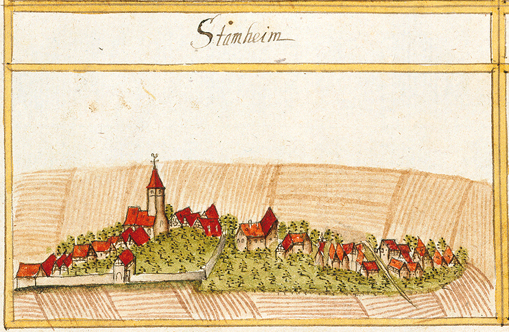 View of Stammheim from the forest register books created by Andreas Kieser